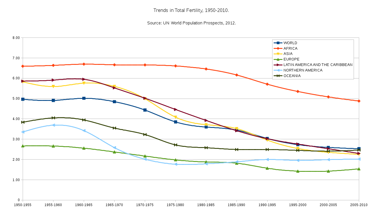 This is a figure illustrating trends in total fertility rates by regions of the world from 1950-2010.